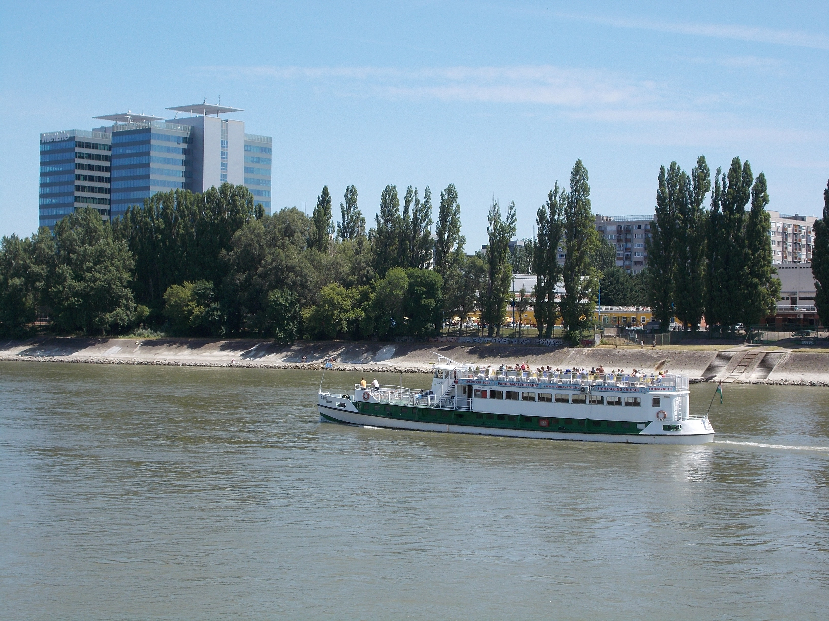 A Boss (ship, 1921) exBAKONY exERCSI exLI. exTBILISI exLI. Built at Ganz Danubius (1921 or earlier?), rebuilt at Újpest Shipyard in 1964 and at Siófok Shipyard in 1979. ENI Number:860 1304. [1] Sightseeing boat on the Danube between Margaret Island and Újlipótváros, Budapest District XIII. View from Margaret Island, Budapest, Hungary